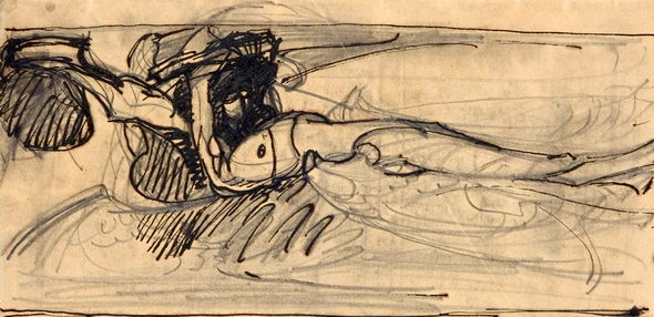 Study of russian artist Mikhail Vrubel for Fallen Demon